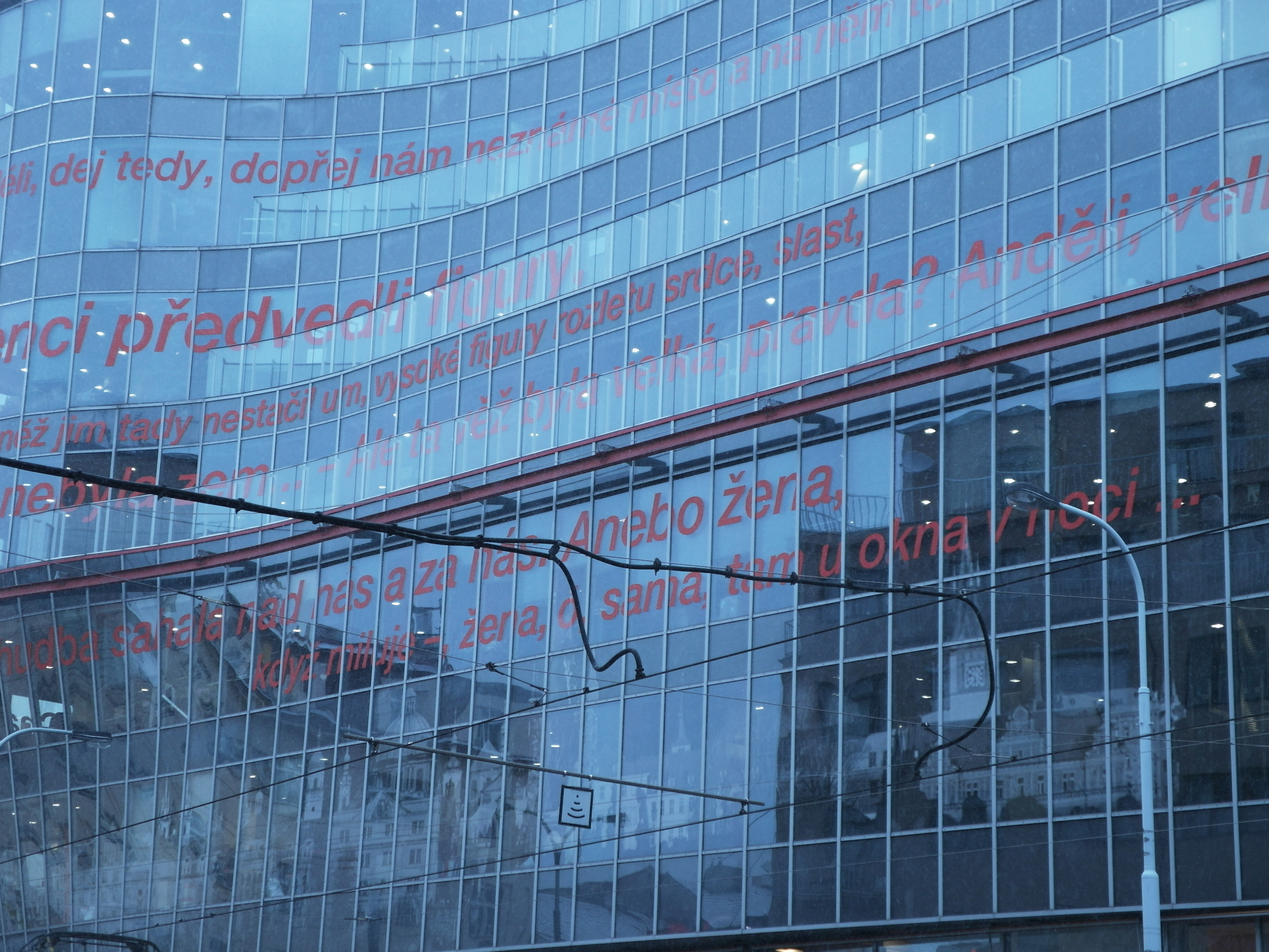 The Golden Angel office complex in Prague, detail